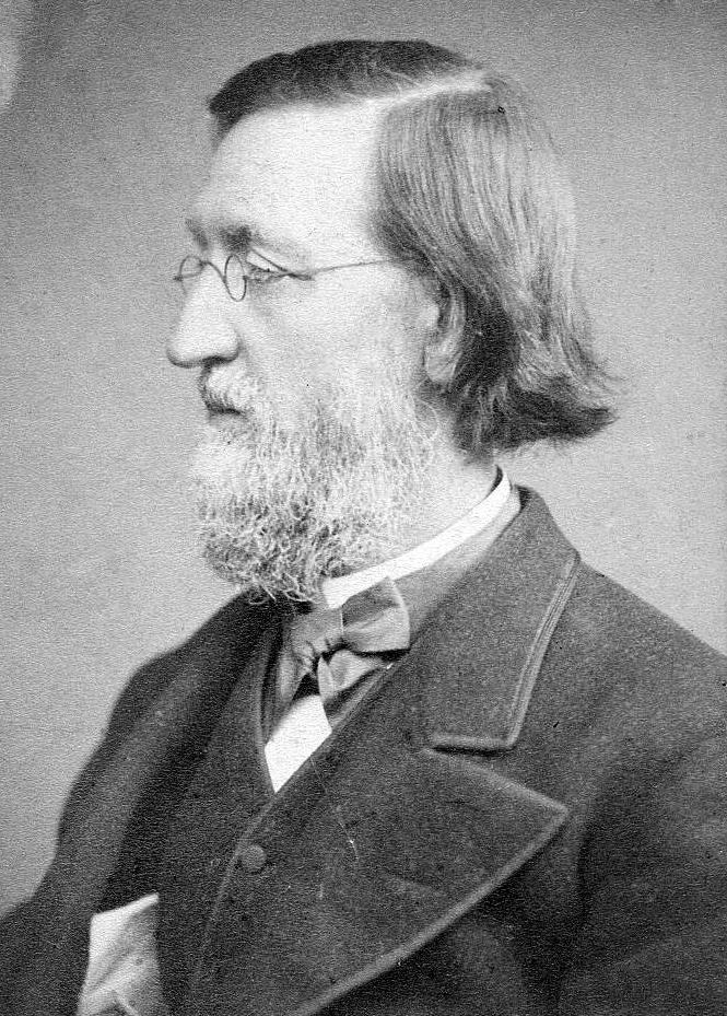 J. Peter Lesley (1826-1898), B.A. 1838, autographed portrait photograph